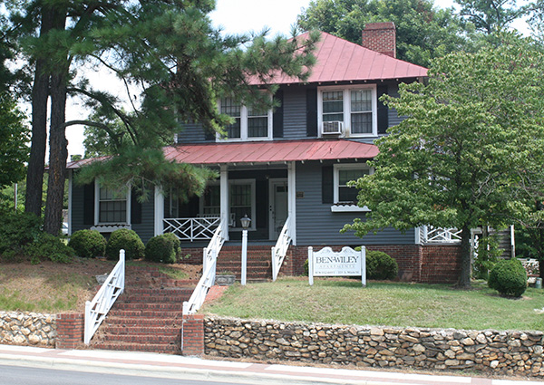 Built in 1925 by Wiley Cozart. Located at 331 S. Main Street in Fuquay-Varina, North Carolina. Listed on the National Register of Historic Places.